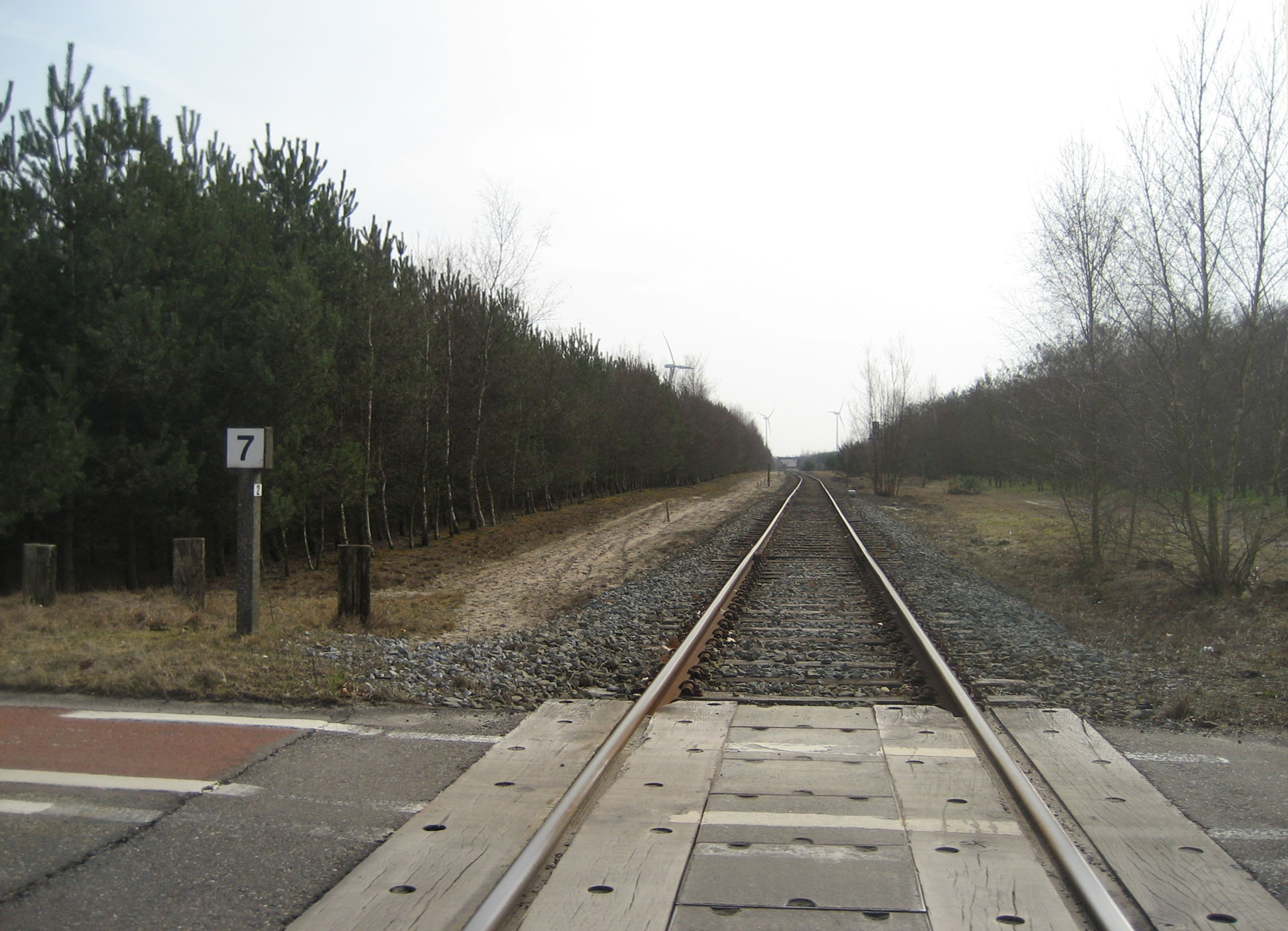 Ligne 273 (Infrabel)